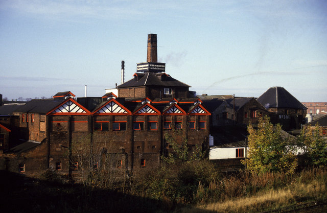 Theakston Carlisle Brewery That's what it said on the water tank. I wonder what it is now?